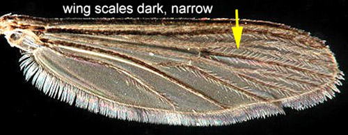 Aedes taeniorhynchus adult wing taken by Michele Cutwa courtesy of UFL-FMEL (University of Florida - Florida Medical Entomology Laboratory)